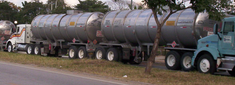 Truck (tractor unit), semi-trailer (?) and trailer, Campeche, Mexico